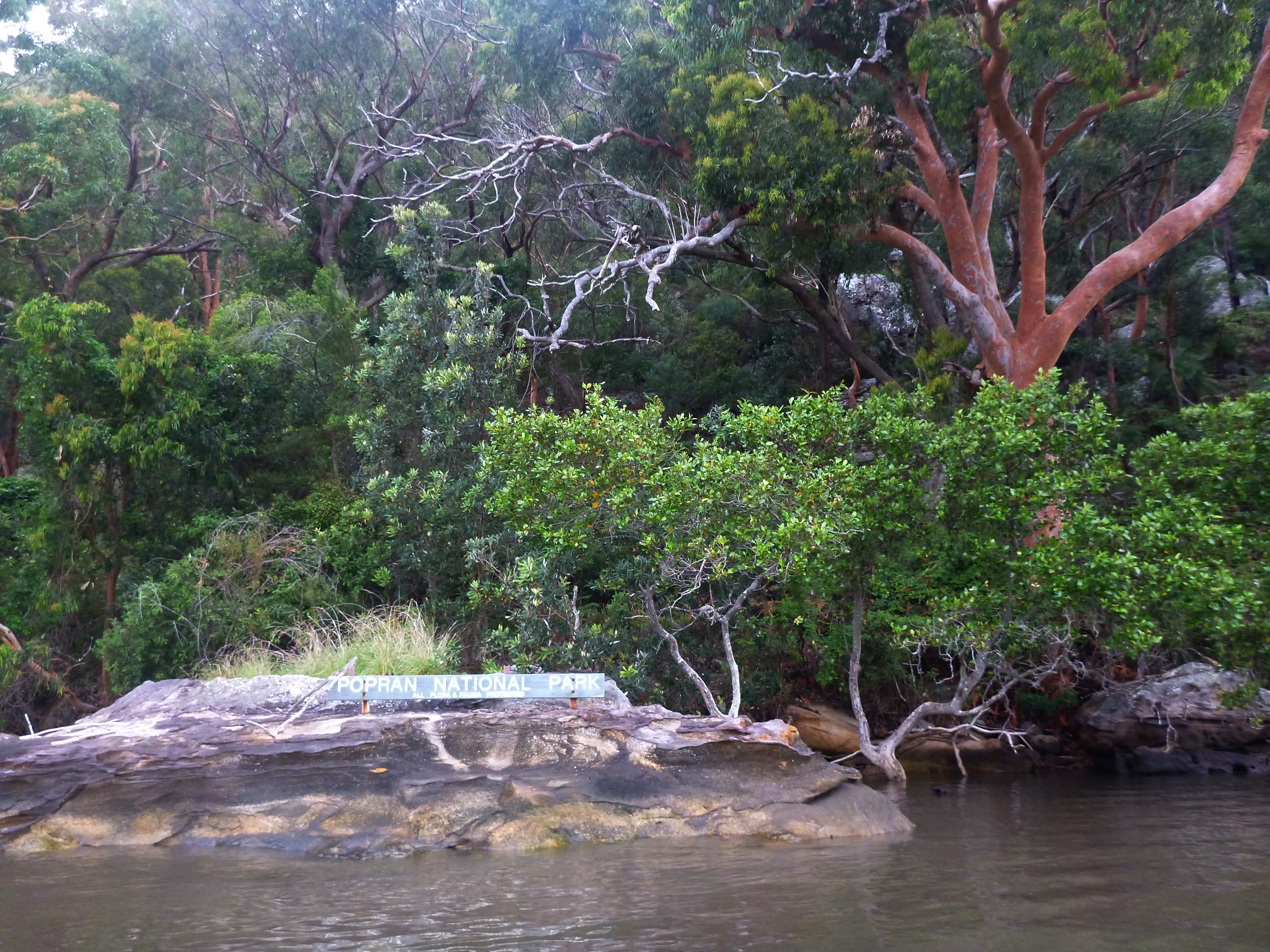 Hawkesbury River